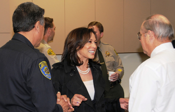 Attorney General Kamala D. Harris Tours the Fresno Regional DNA Laboratory February 25, 2011